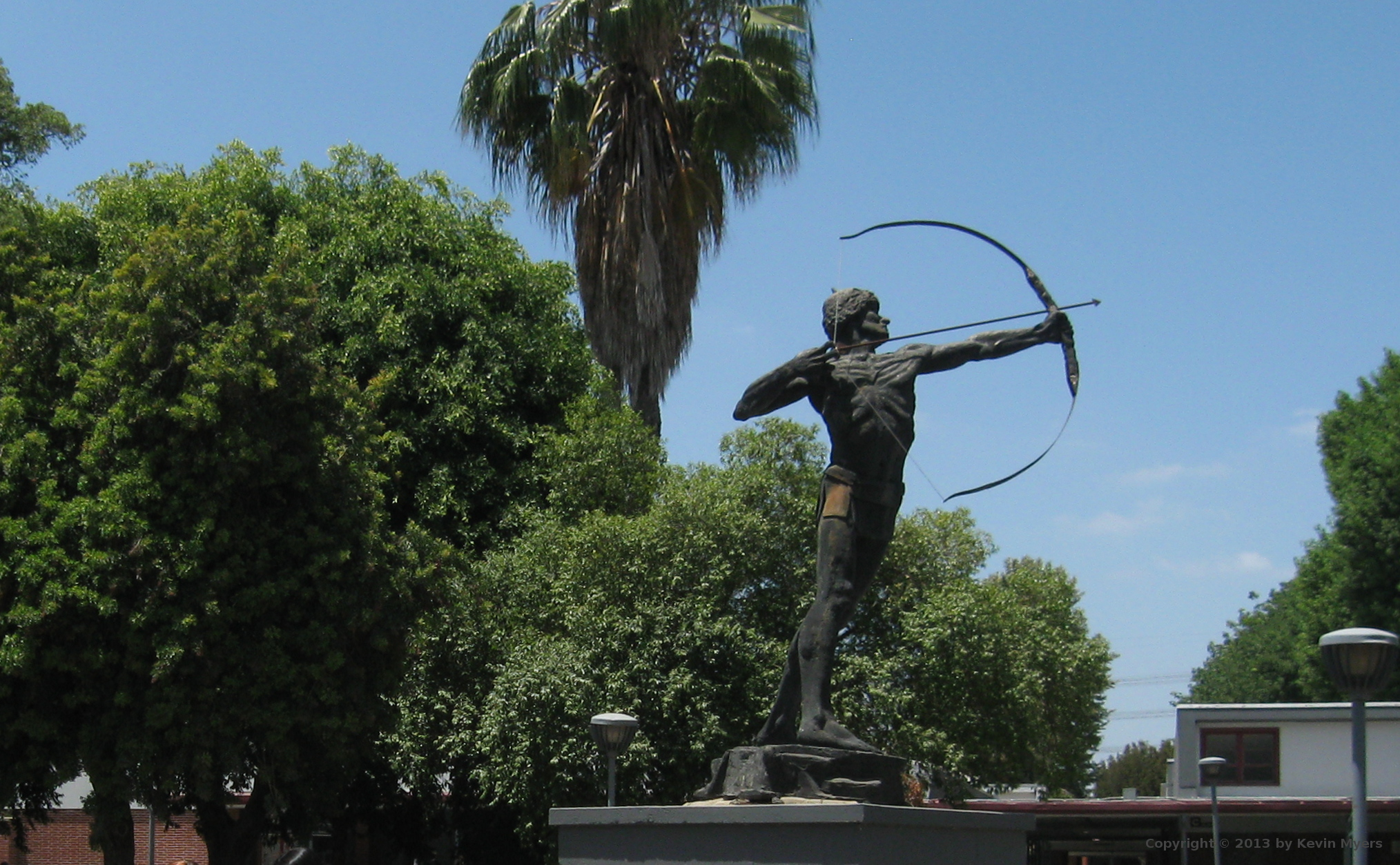 Statue of the Greek and Roman god Apollo on the El Camino College Compton Center campus. El Camino College Compton Center 1111 E. Artesia Blvd Compton, CA 90221 Panoramio